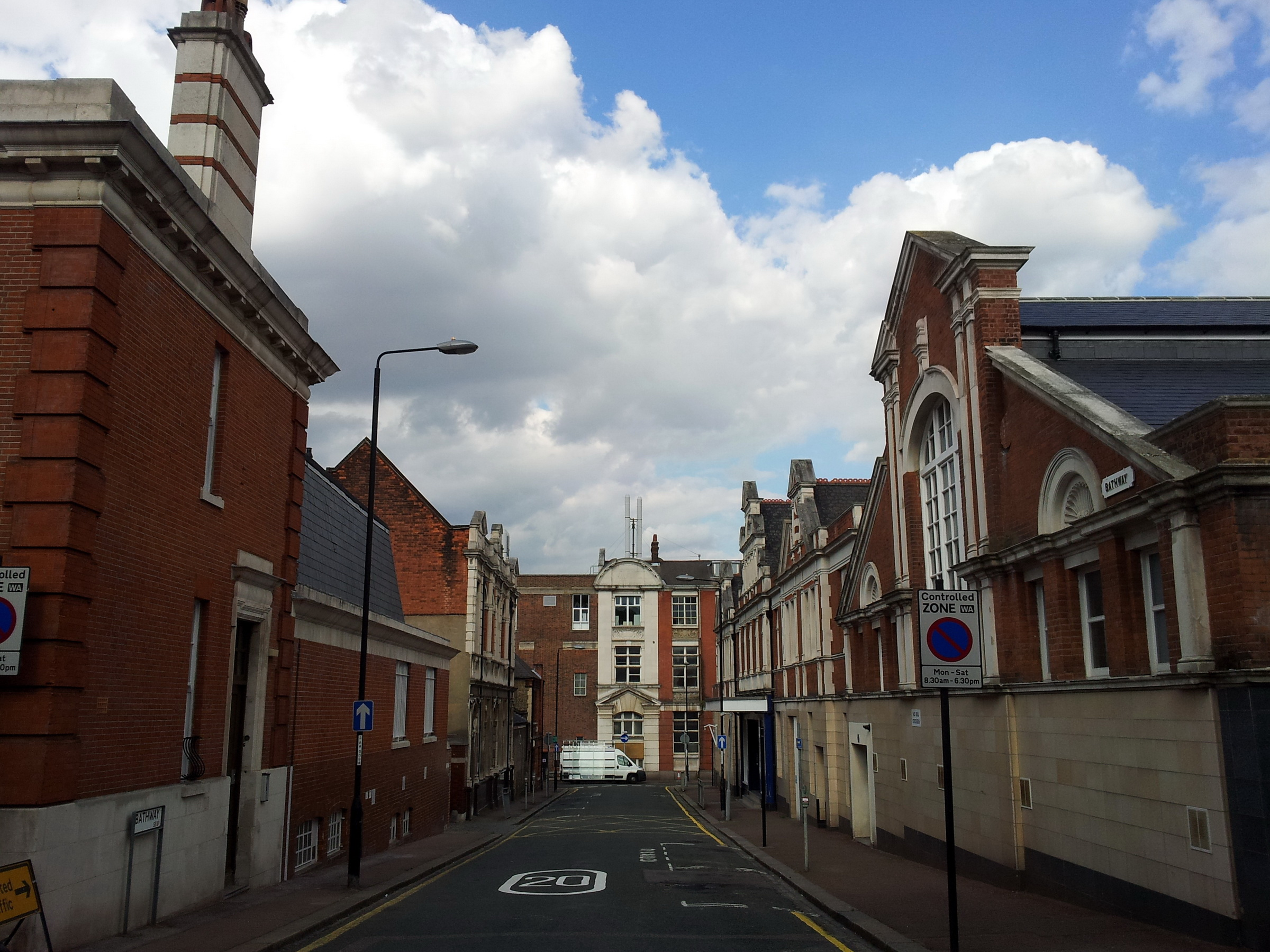 View of Bathway towards Woolwich Polytechnic in the centre of Woolwich, South East London. On the left the old magistrates court, on the right the old baths.